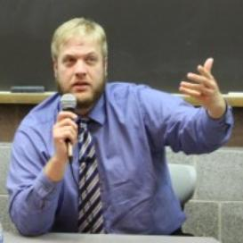 Photo by Suhaib Webb and Adeel Khan, from image taken at a talk given by Suhaib Webb and offered into the public doman.